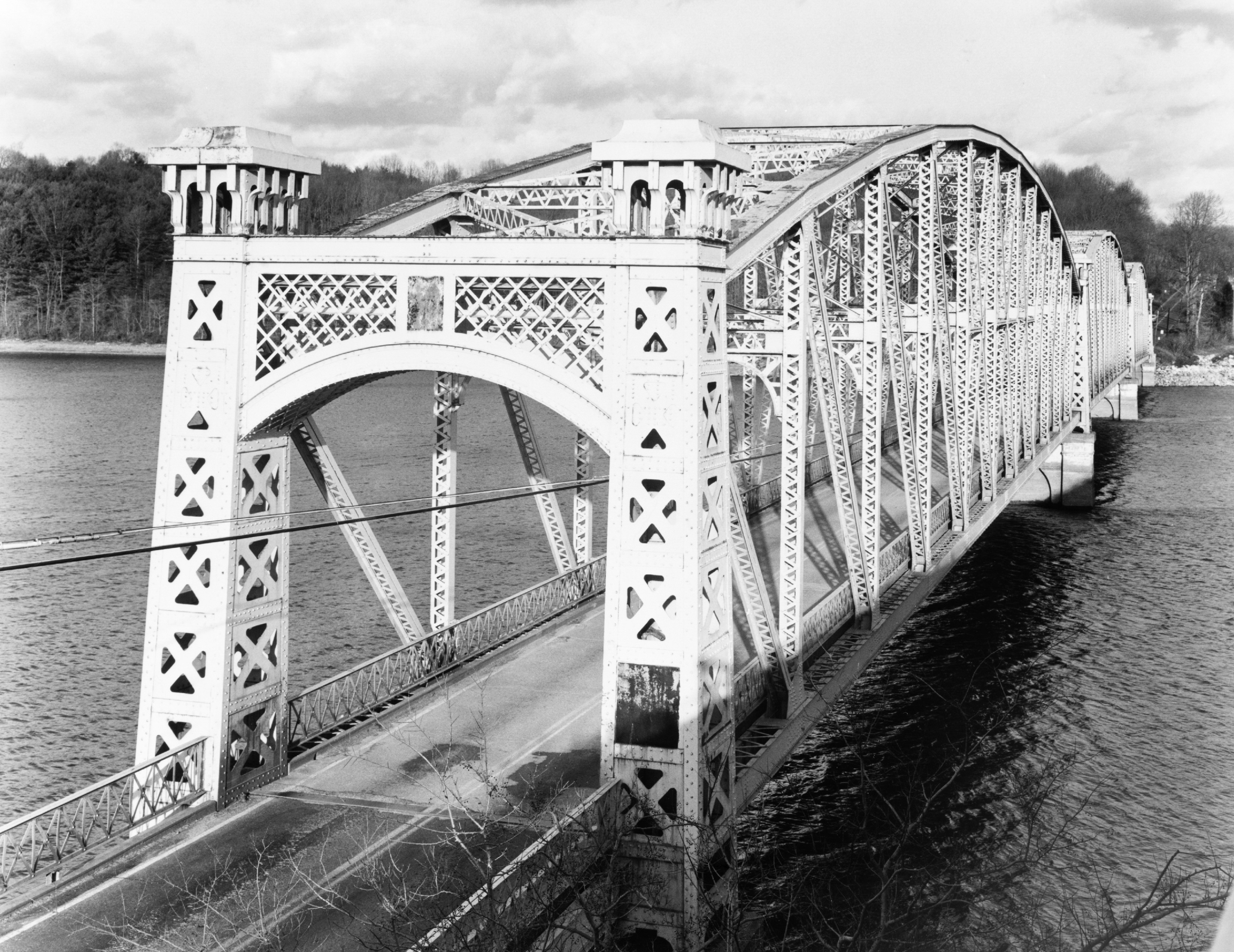 West portal of historic Matthews Bridge (1914-1978), spanning Loch Raven Reservoir on Maryland Route 146 (Dulaney Valley Road, Baltimore County, Maryland.